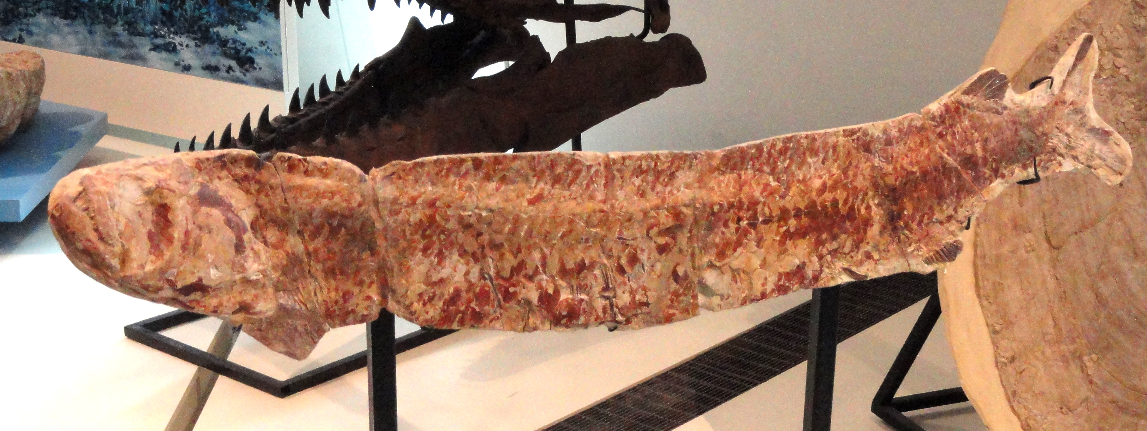 Exhibit in the Royal Ontario Museum, Toronto, Ontario, Canada. This exhibit is old enough so that it is in the public domain, and photography was permitted in the museum. I took this photograph and release it into the public domain.